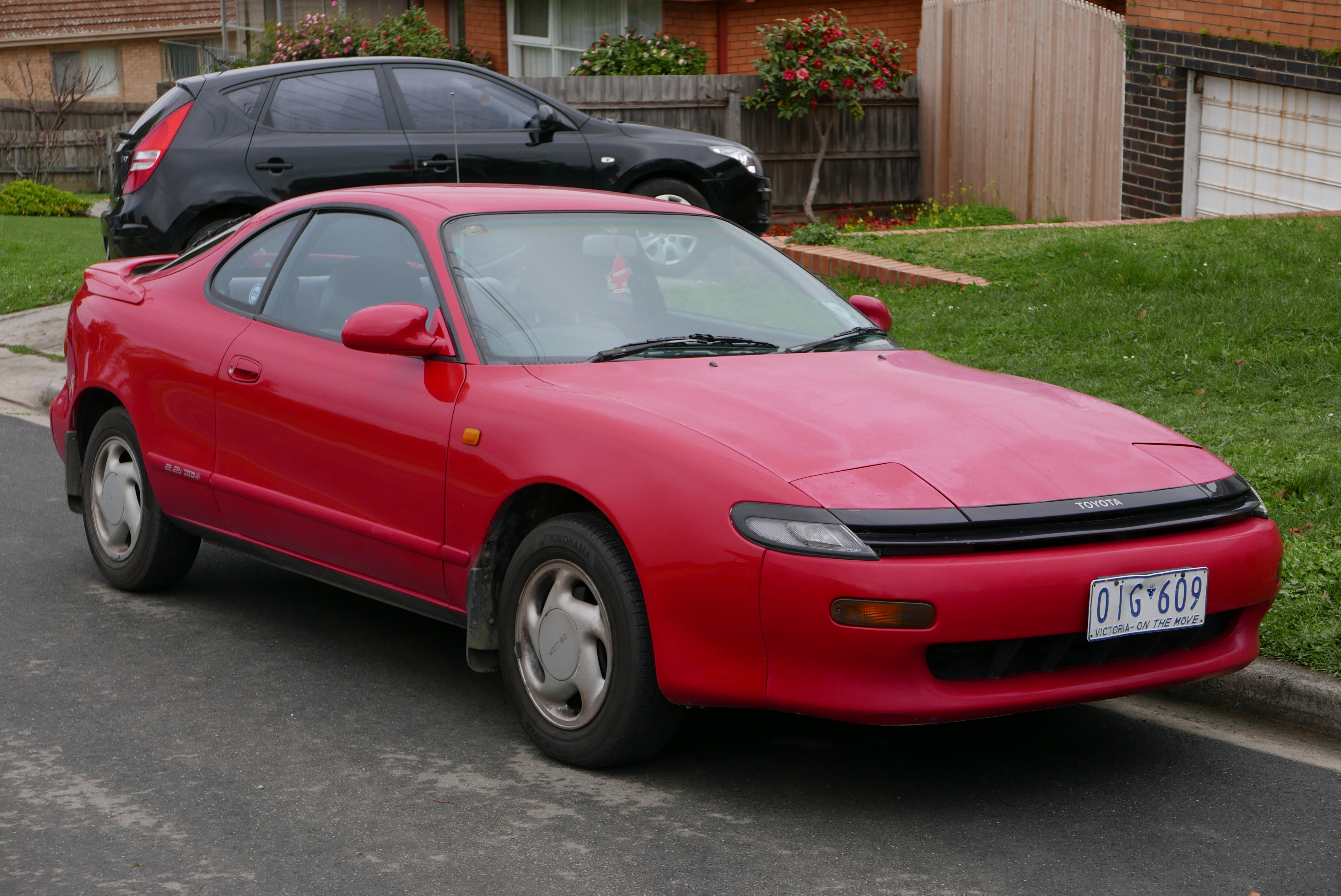 1990 Toyota Celica (ST184R) SX liftback. Photographed in Doncaster, Victoria, Australia. Vehicle registration enquiry results Jurisdiction Victoria Registration OIG609 Chassis code JT764STJ400075346 Engine code 5S0087106 Compliance date 1991-01 Year of manufacture 1990 (not a typo)